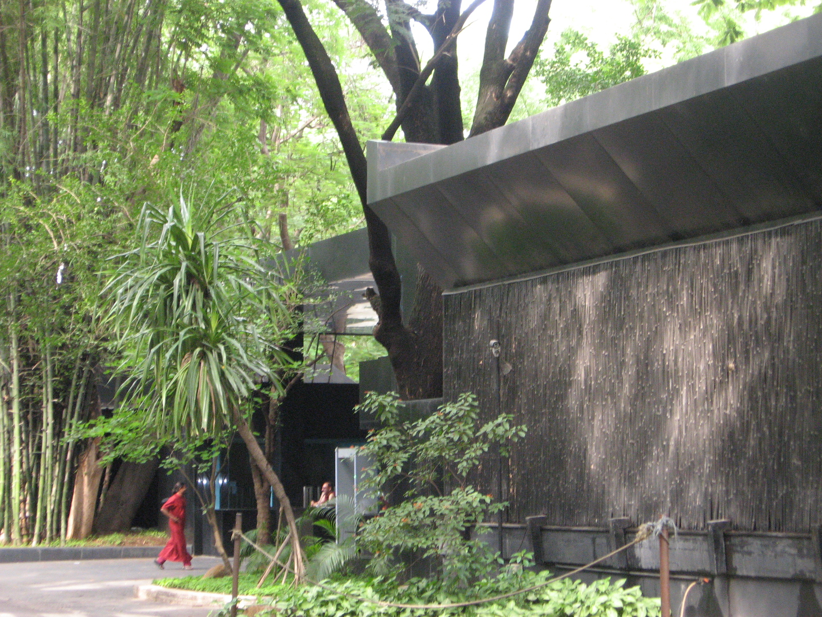 OSHO ineternational Asharam